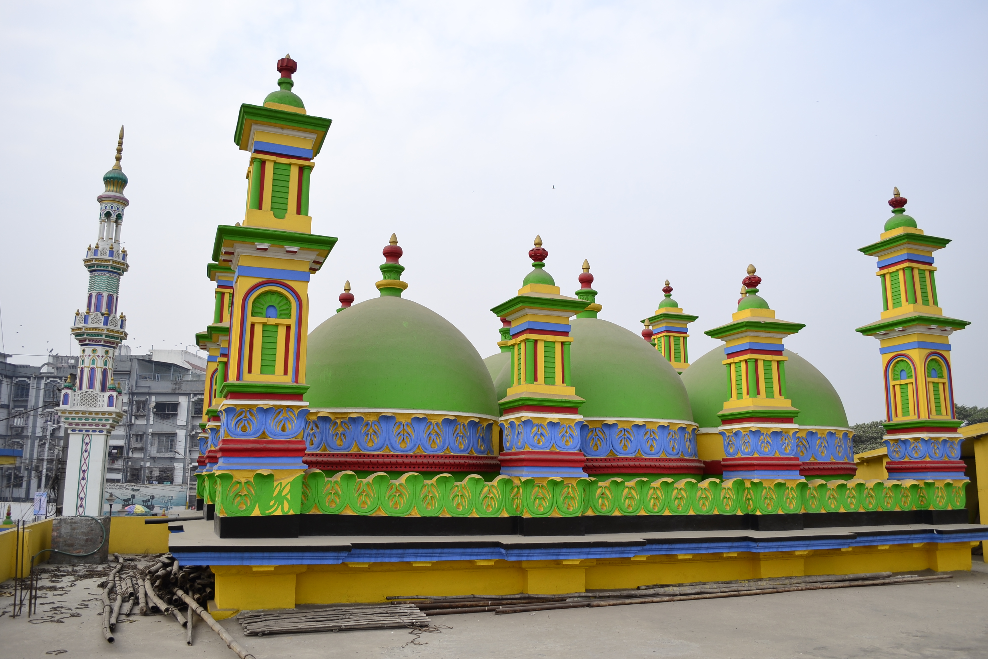 Zohora Begum Mosque located Tollygunge, Kolkata, Address - 32 Somnath LahiriSarani Kolkata.